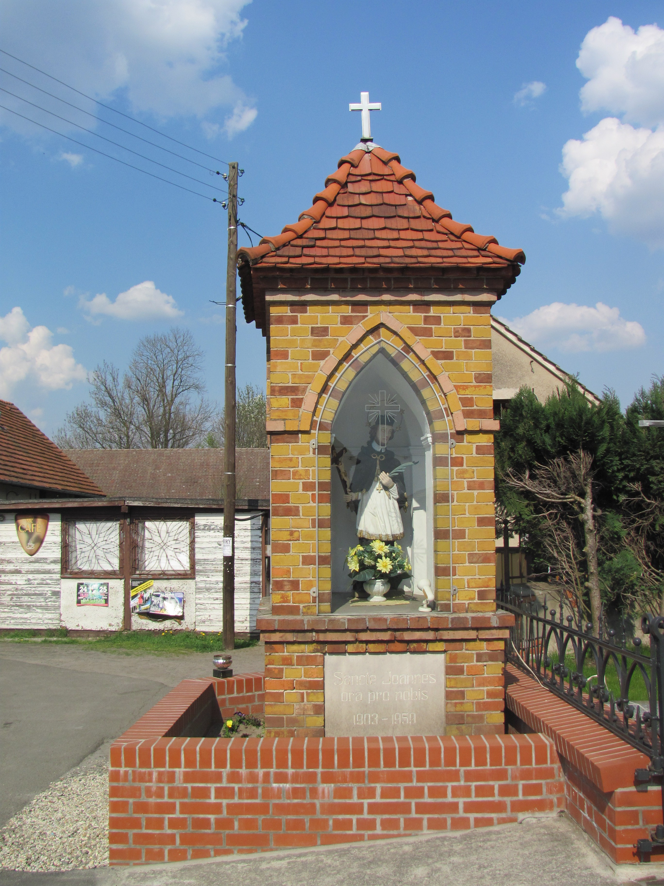 John of Nepomuk shrine by the church in Brynica